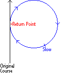 Diagram of an Anderson turn, created by the Epopt